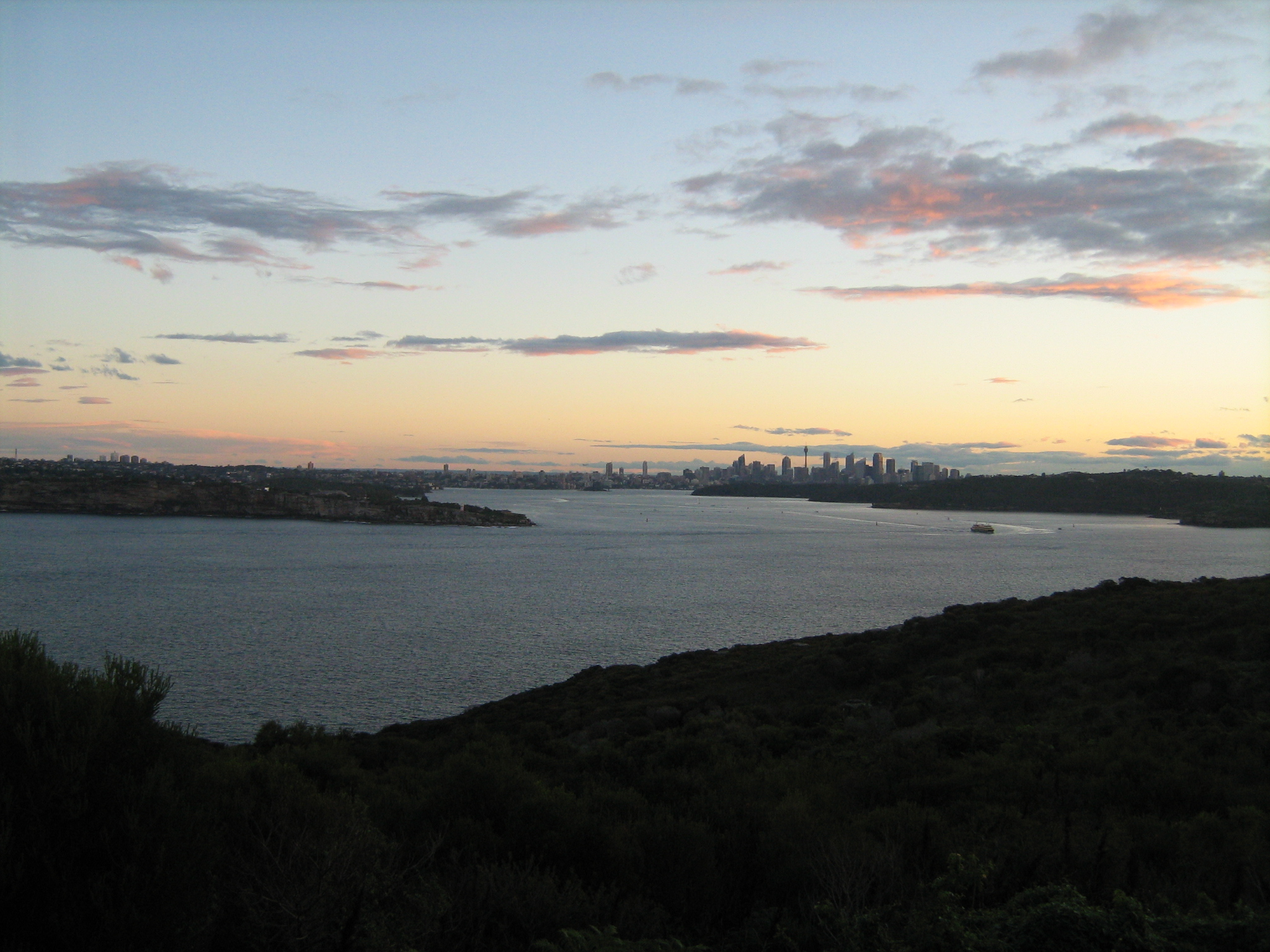 View of Port Jackson from North Head looking towards the Sydney central business district.